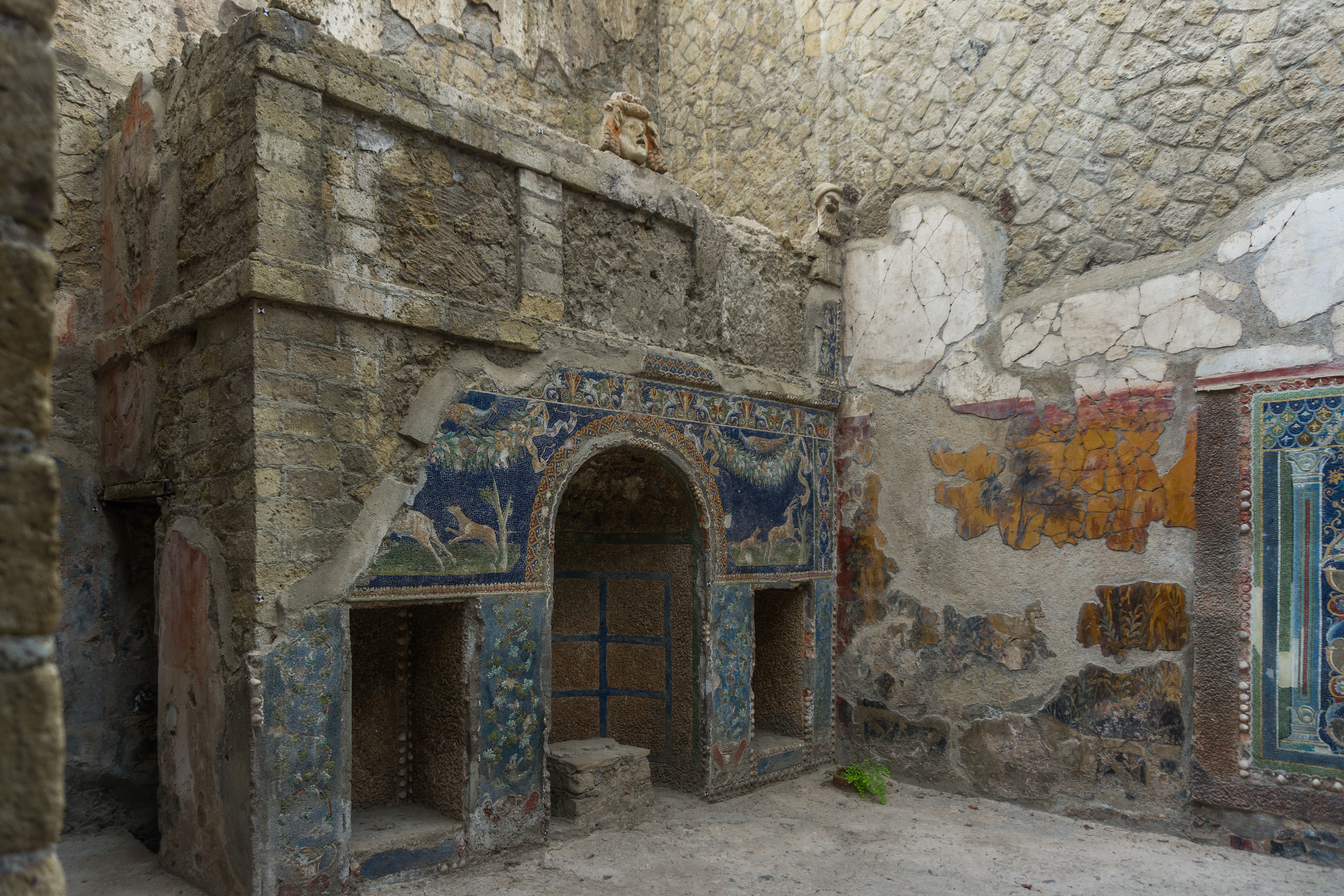 Neptune's House and Amphitrite This is a photo of a monument which is part of cultural heritage of Italy.